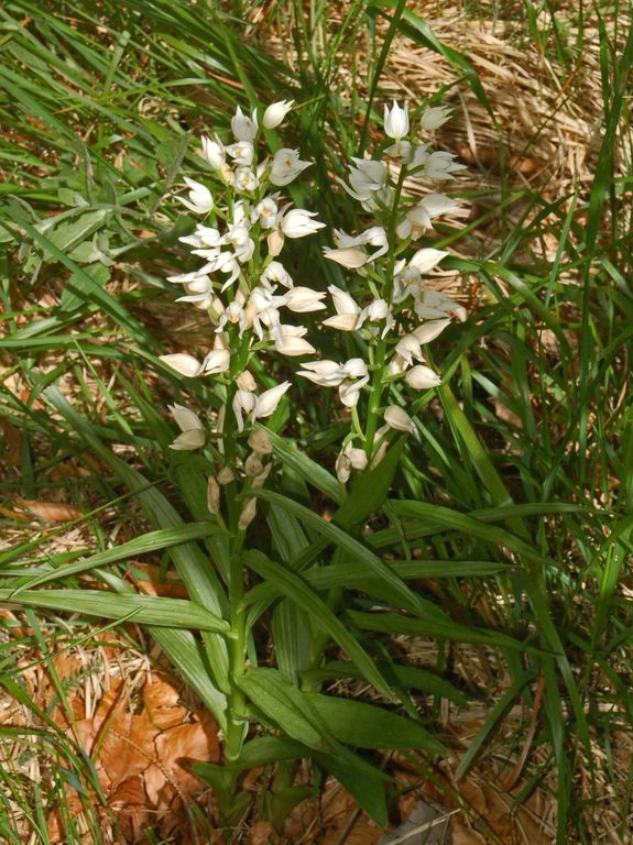 Cephalanthera longifolia - Piani di Praglia, Genova